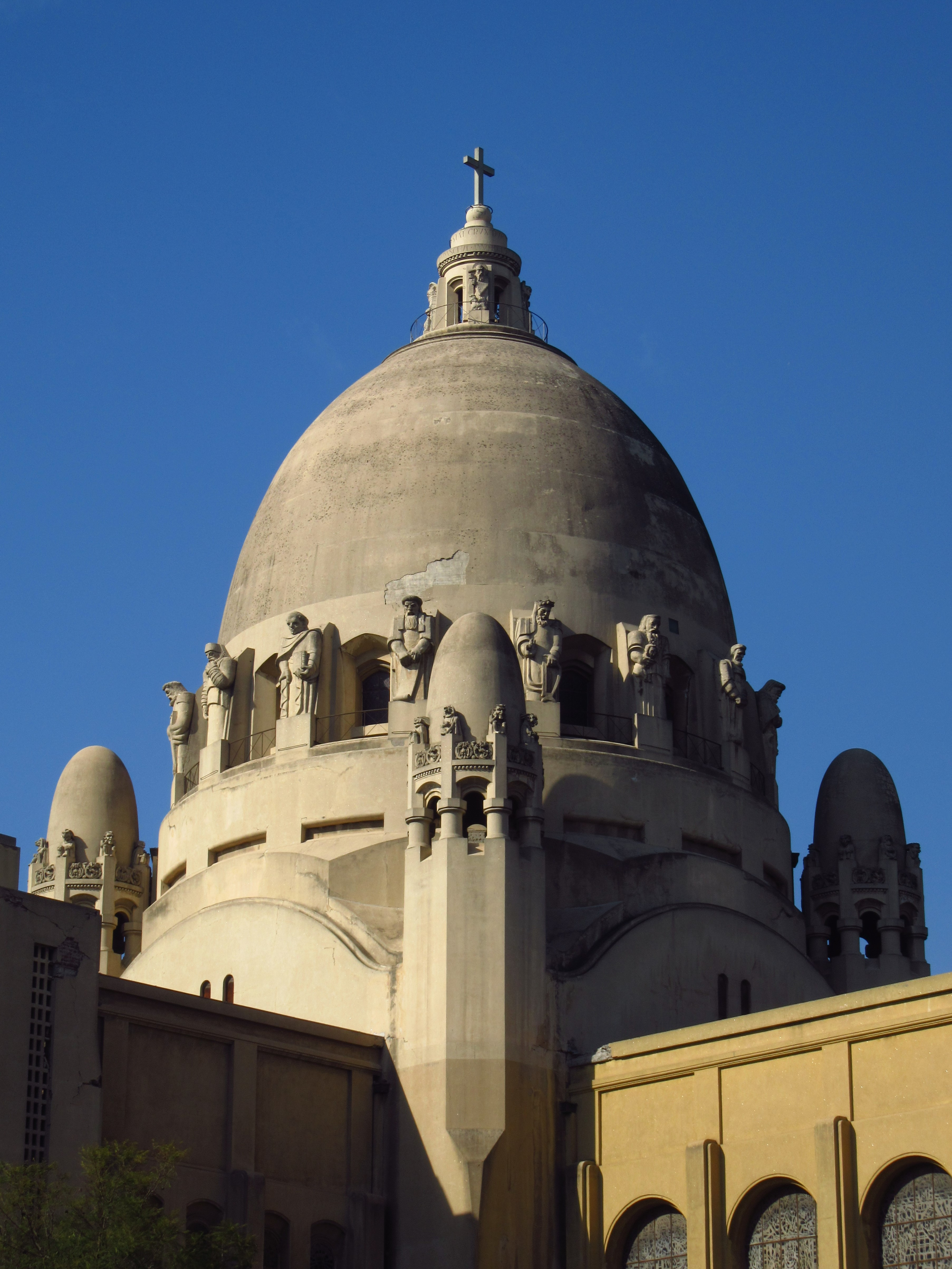 2017 in Santiago de Chile